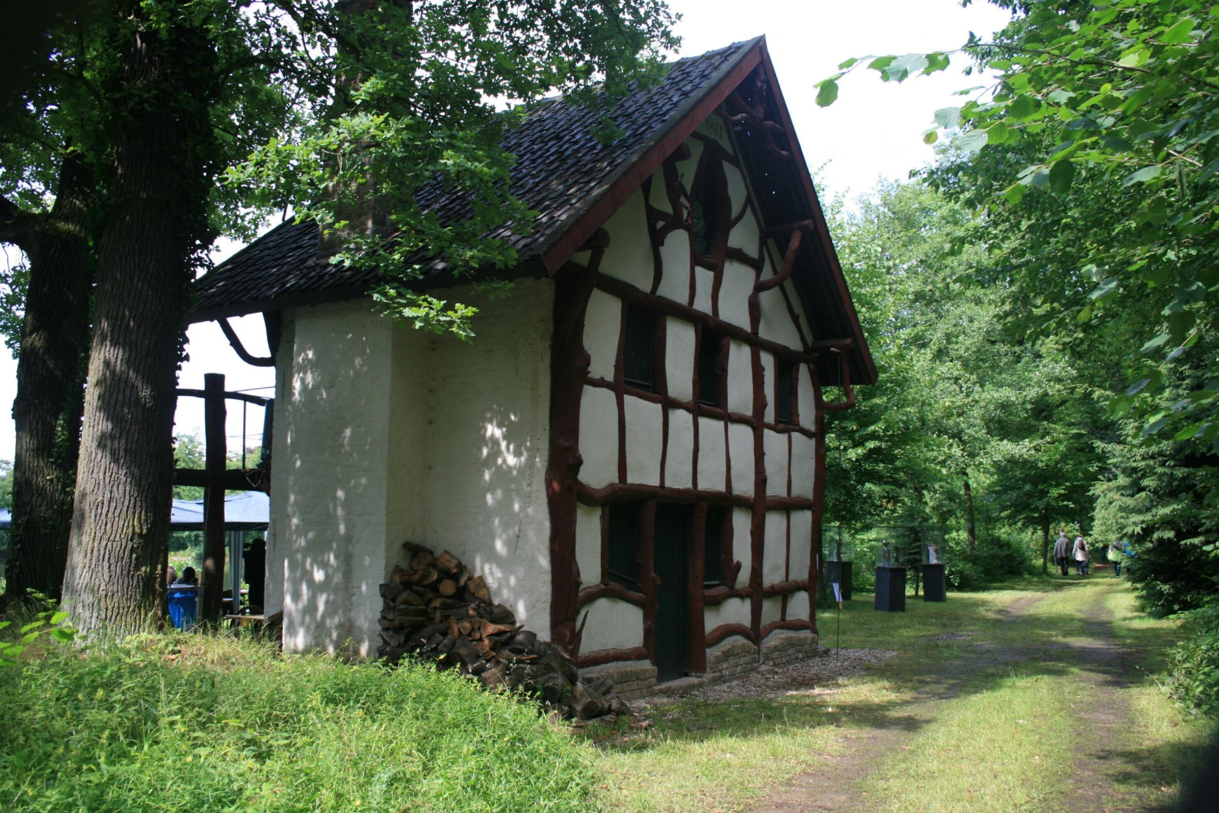 Cultural heritage monument No. 6/001c in Düren